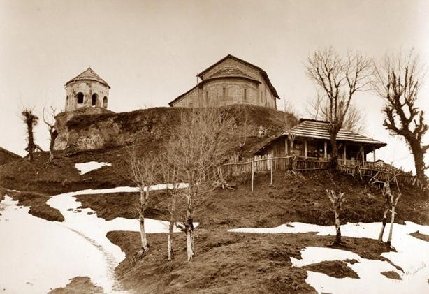 D. Yermakov. Jumati monastery, 1877-1878